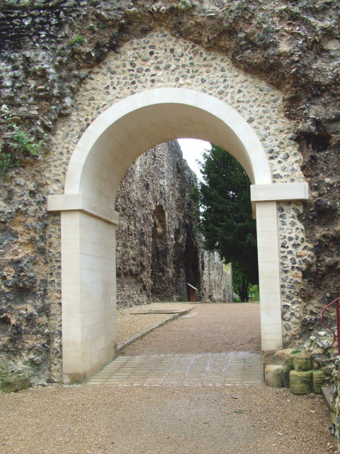 This photo was taken in the Abbey Ruins and the new stone work was installed at the time of the refubishment of the Forbury Gardens in 2005. Before it was just a hole in the wall supported by old timber supports.